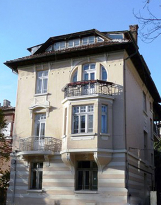 Arch. Dimo Nitschev's house